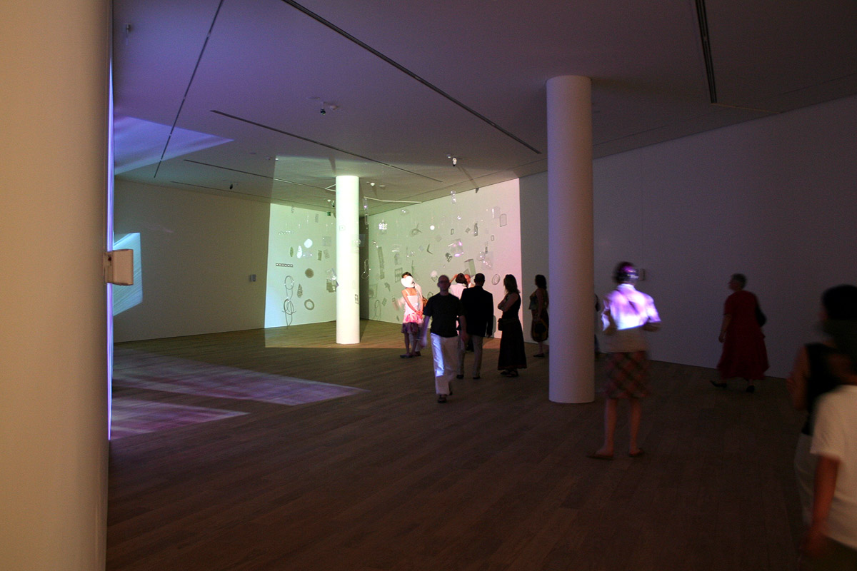 MUDAM (Musée d'Art Moderne Grand-Duc Jean), Luxembourg. Opening exhibition. Artwork by Pipilotti Rist